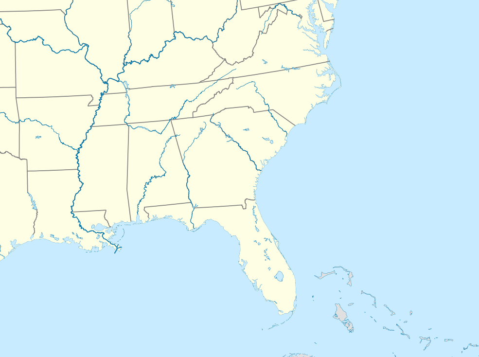 Location Map for USA Southeast cropped from the bottom right hand corner of the original map covering 984x733 of the original 2000x1237